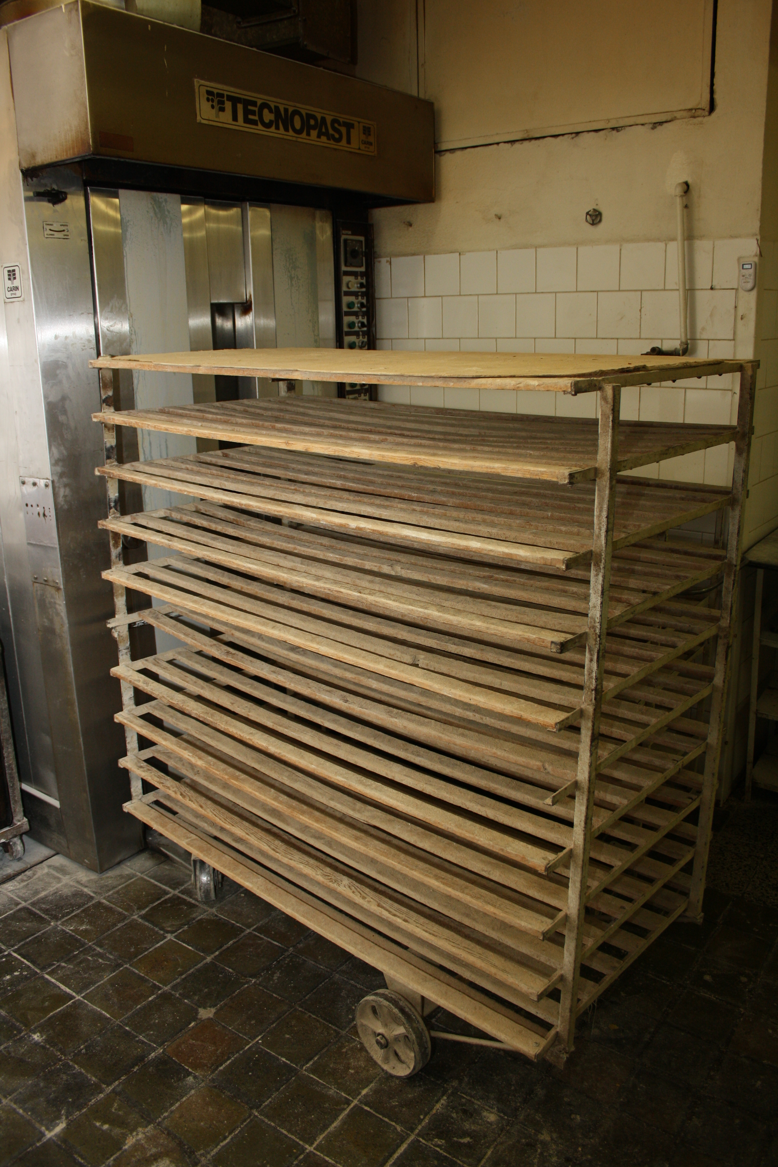 Rack in bakery in Czech Republic This photograph was taken with a DSLR from WMCZ's Camera grant. This picture was taken and/or got within the scope of the 'Acquiring scientific and specialized pictures' grant.